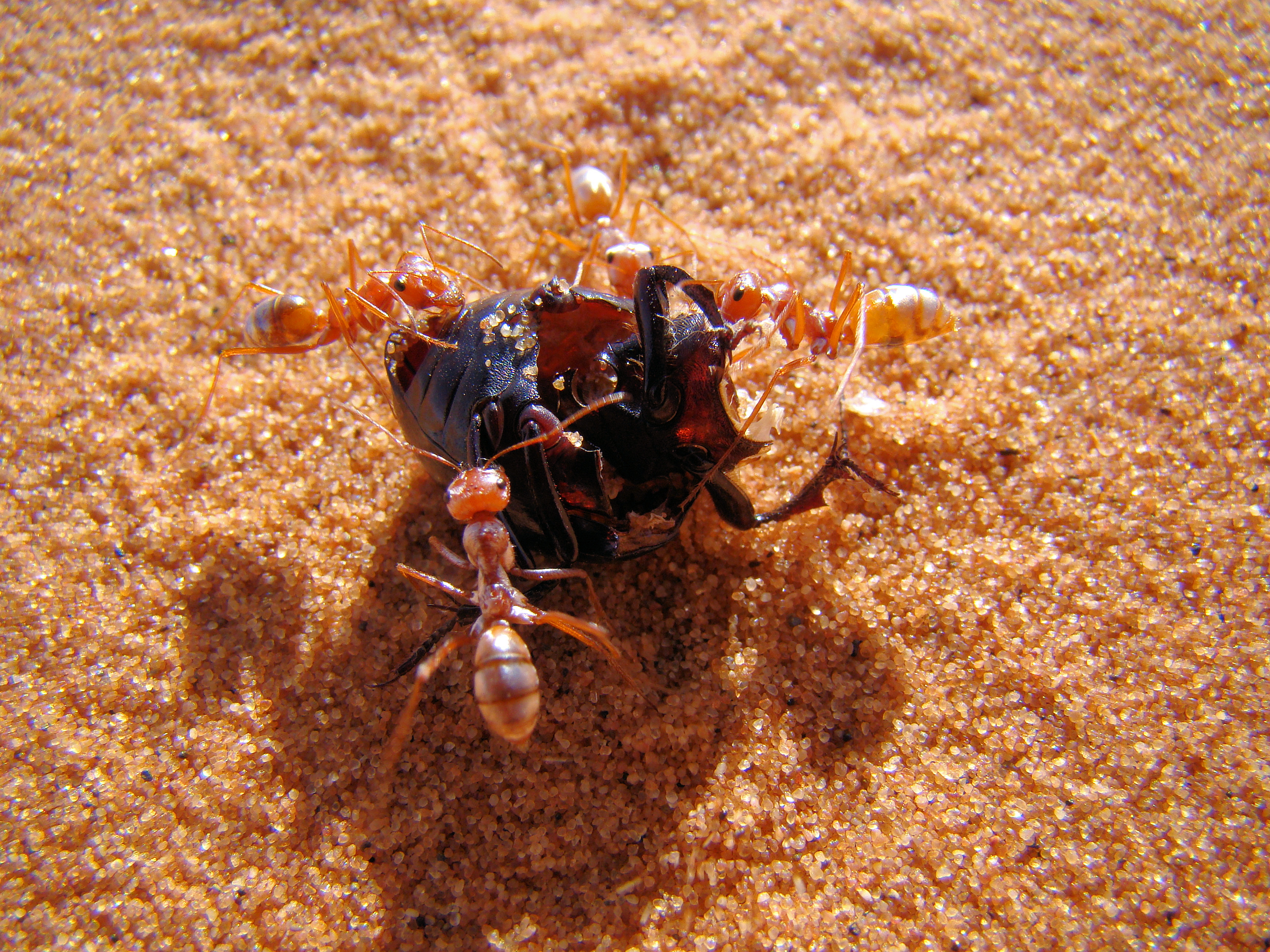 A group of Saharan silver ants (Cataglyphis bombycina) at work dismantling a beetle (Tenebrioninae/Stenocara) to bring it back to their nest.